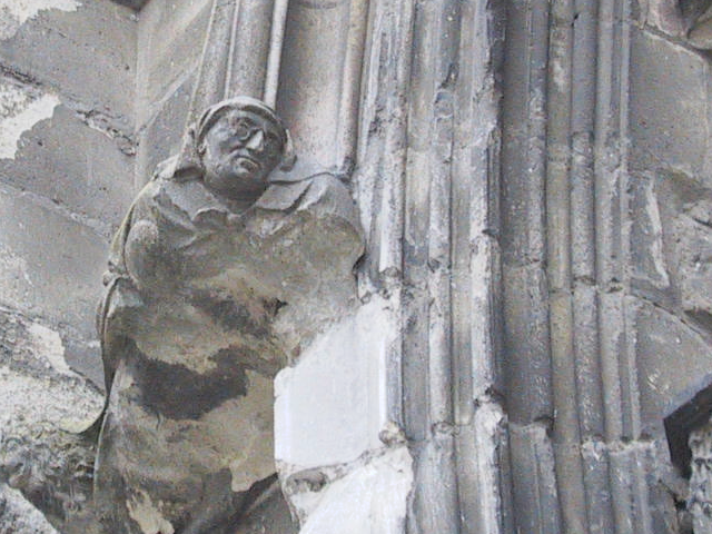 Monk with glasses, Meaux Cathedral, France